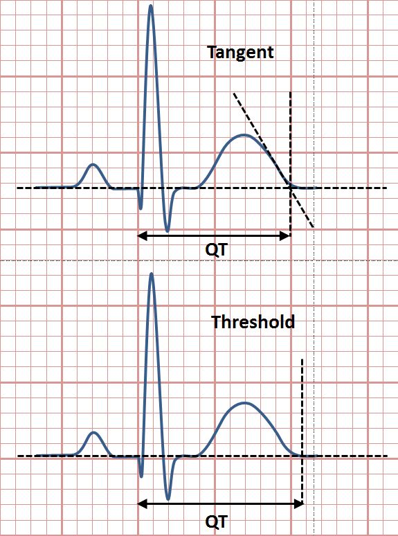 Cartoon illustrating methods for measurement of the QT interval